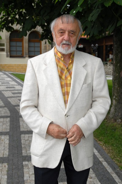 Jaroslav Brožek je významný český teoretik v oboru barva, pedagog, metodik, malíř.